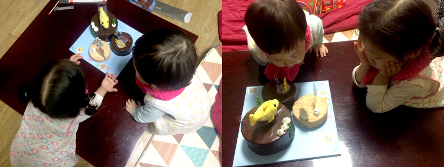 2017 Korean children celebrate Christmas with Pinkfong shark family.